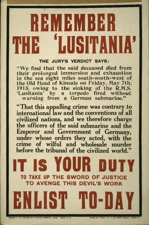 British recruiting poster : REMEMBER THE LUSITANIA THE JURY'S VERDICT SAYS: "We find that the said deceased died from their prolonged immersion and exhaustion in the sea eight miles south-south-west of the Old Head of Kinsale on Friday, May 7th, 1915, owing to the sinking of the R.M.S. 'Lusitania' by a torpedo fired without warning from a German submarine." "That this appalling crime was contrary to international law and the conventions of all civilized nations, and we therefore charge the officers of the said submarine and the Emperor and Government of Germany, under whose orders they acted, with the crime of wilful and wholesale murder before the tribunal of the civilized world." IT IS YOUR DUTY TO TAKE UP THE SWORD OF JUSTICE TO AVENGE THIS DEVIL'S WORK ENLIST TO-DAY